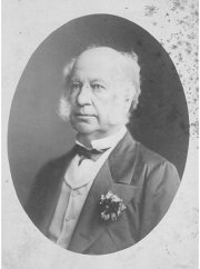 Sir Edward Deas Thomson (1800-1879)